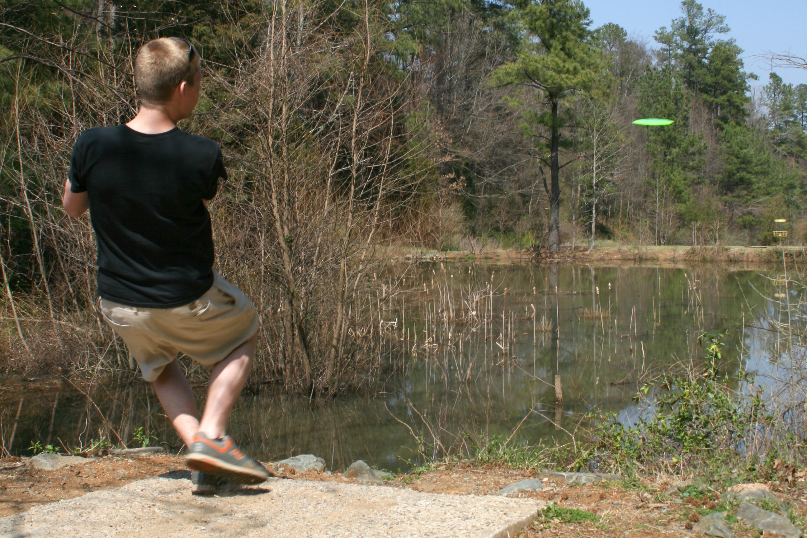 A disc golfer throws a disc across a pond at the UNC Outdoor Recreation Center in Chapel Hill, North Carolina.